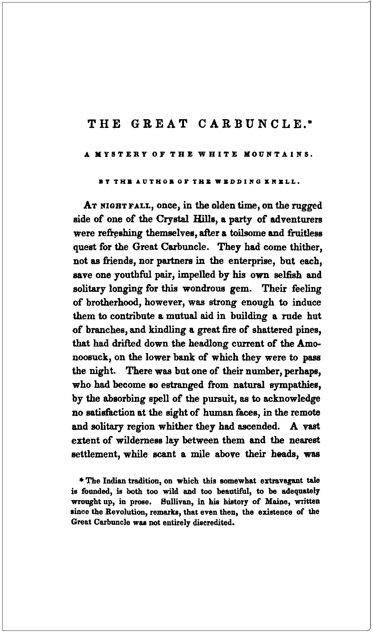 Scan of the first page of the anonymous first edition/publication of Nathaniel Hawthorne's short story The Great Carbuncle in the 1837 The Token and Atlantic Souvenir (published by the end of 1836; retouched page border & some deleted spots)